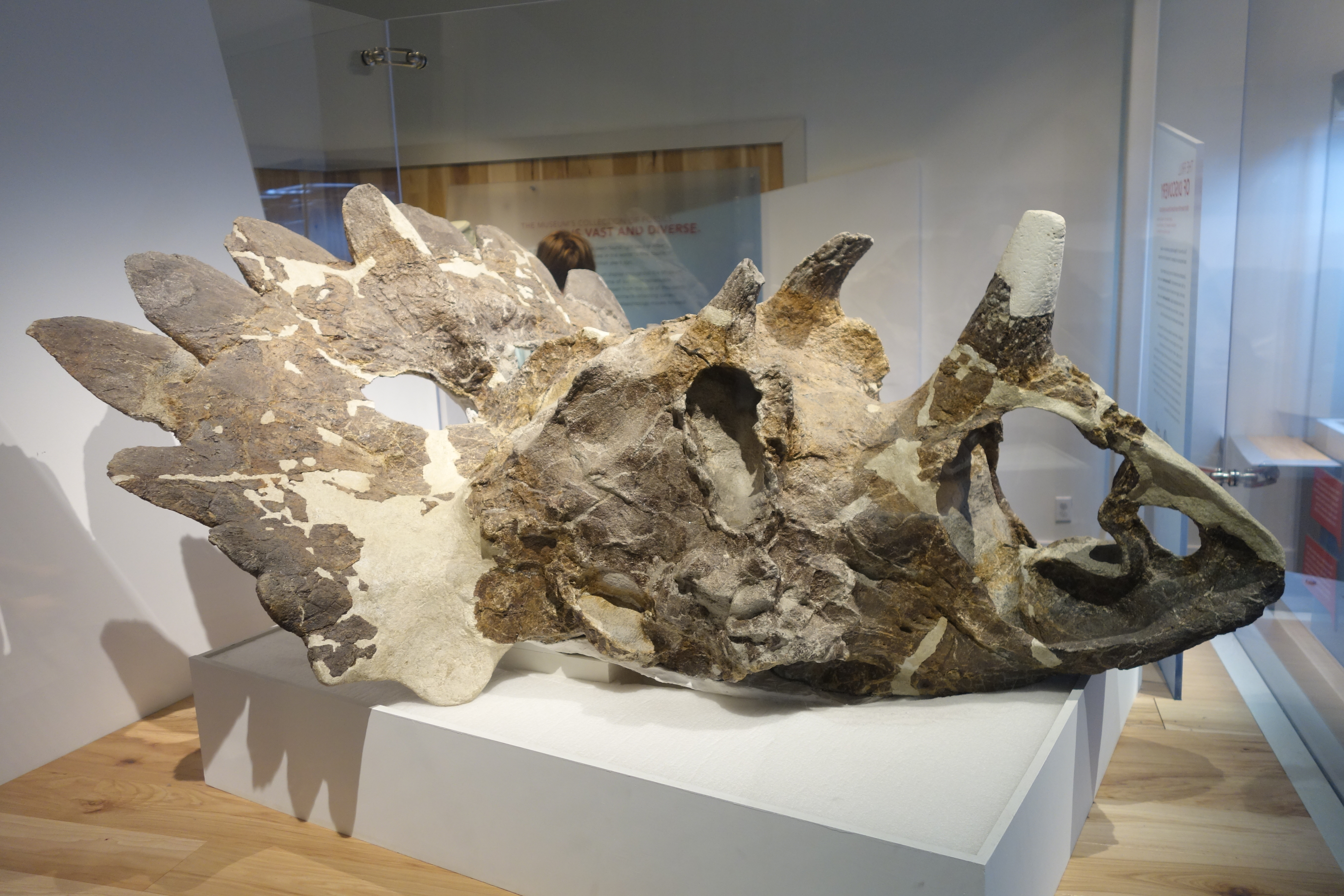 Skull of Regaliceratops petershewsi (original). Specimen number TMP 2005.055.0002. Found in the St. Mary River Formation, Waldron Flats, Alberta. On display at the Royal Tyrrell Museum, Alberta.